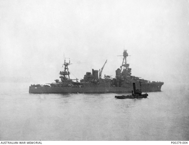 Sourced from: Copyright: The AWM record for this photo states that the copyright status is 'clear'. The photo was taken in 1942. AWM Caption: Sydney, Australia. 1942-05-31. USS Chicago in Sydney Harbour at the time of the attack by Japanese submarines. Note the aerial for early air search radar, type exam, on the mainmast.